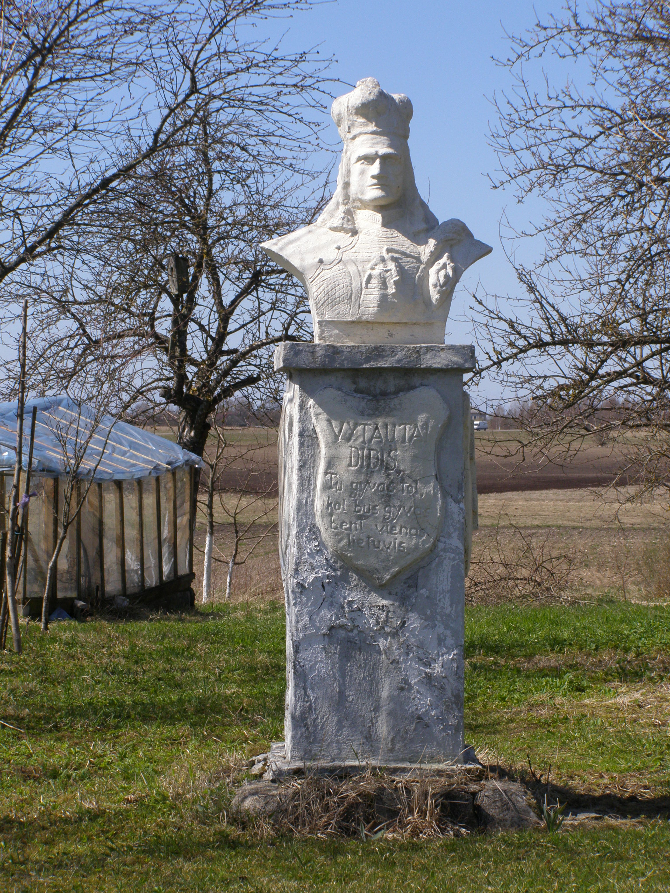 Gargždelė monument, Kretinga district, LithuaniaLietuvių: Vytauto Didžiojo paminklas Gargždelėje, Kretingos rajonas, Lietuva